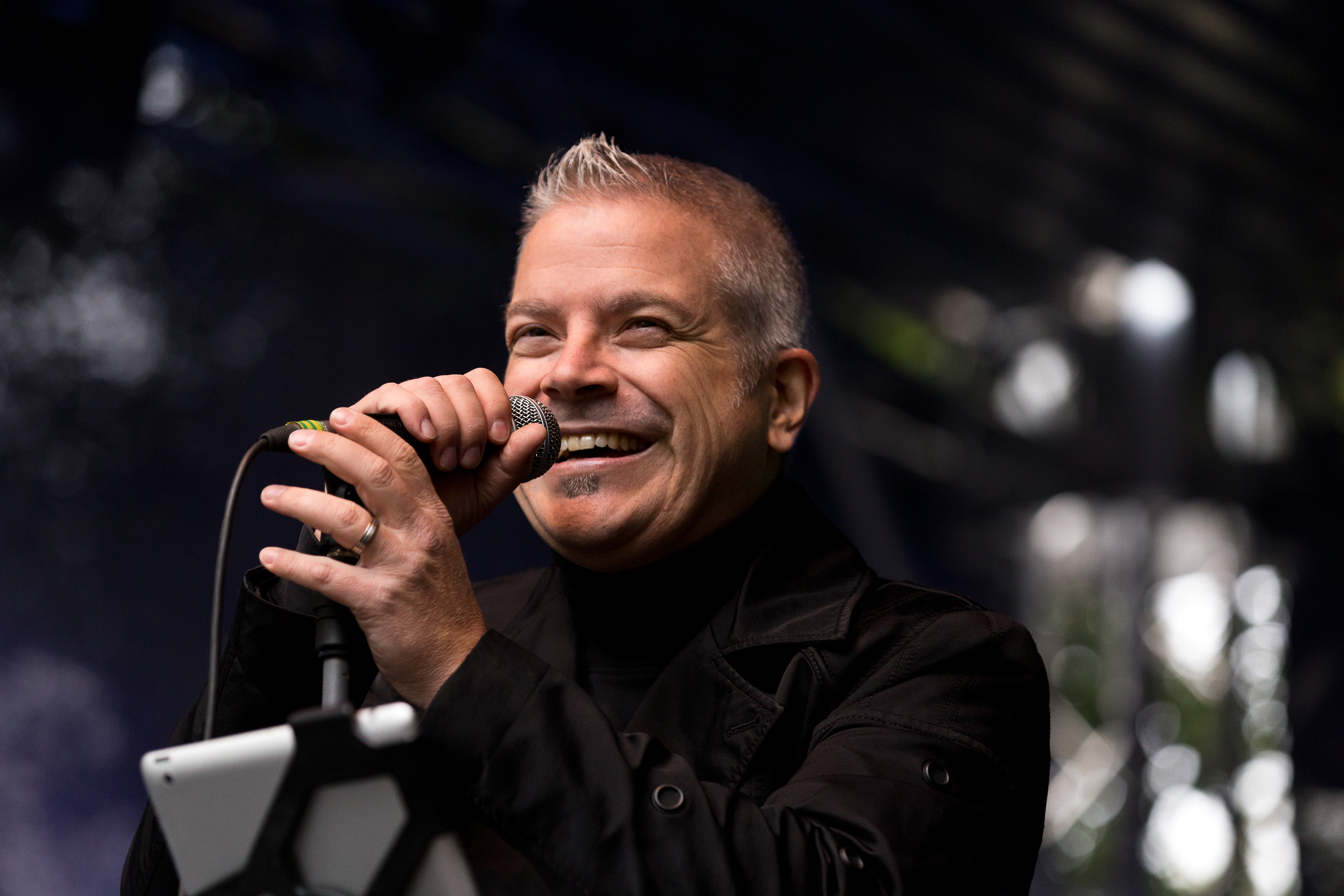 The Swiss-German Futurepop Band NamNamBulu at the Nocturnal Culture Night 10 2015 in Deutzen/Germany.